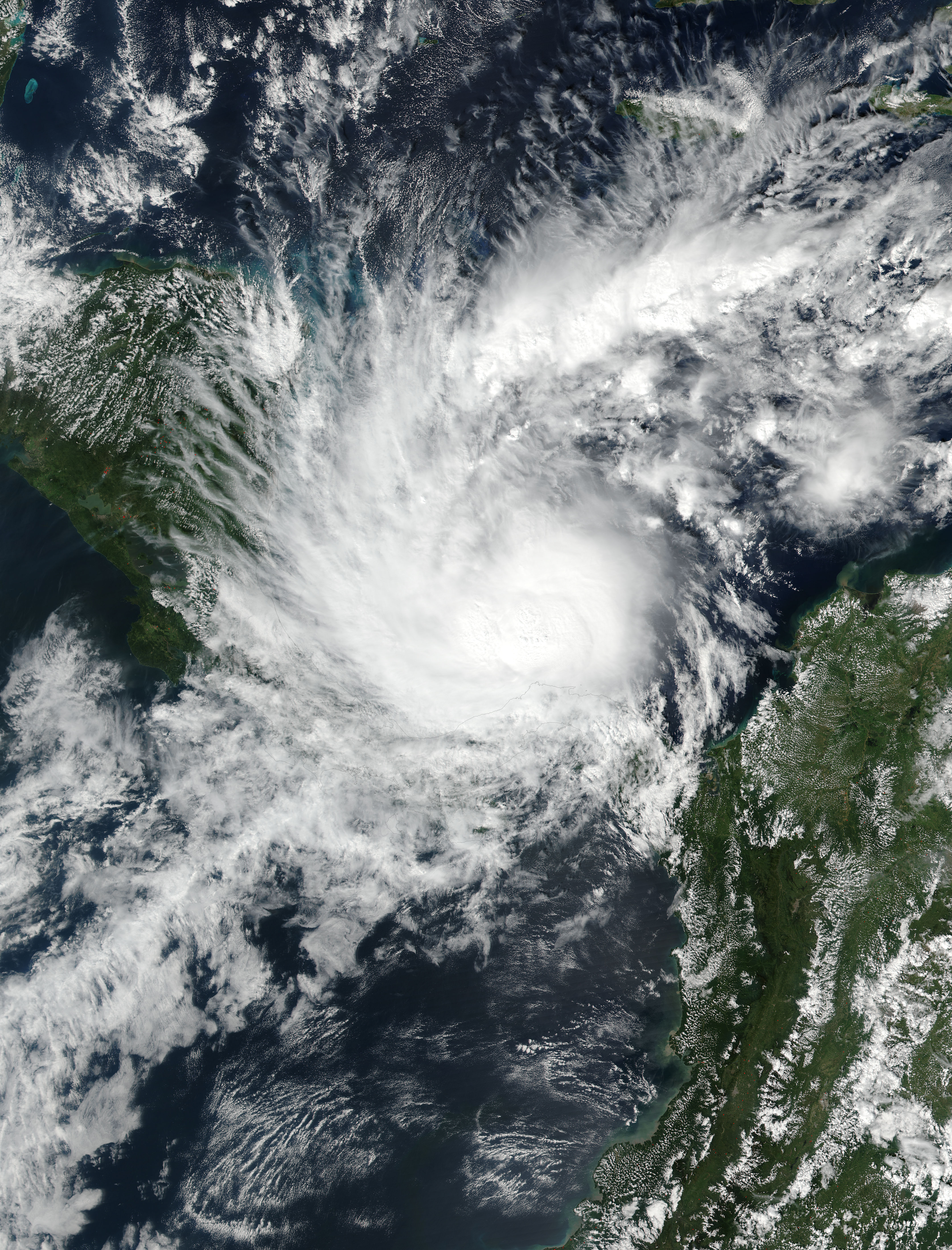 Hurricane Otto (16L) in the Caribbean Sea